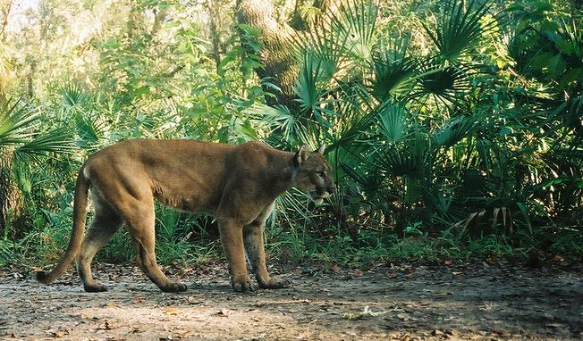 endangered Florida Panther National Wildlife Refuge, FL Trail camera photo by the Florida Fish and Wildlife Commission